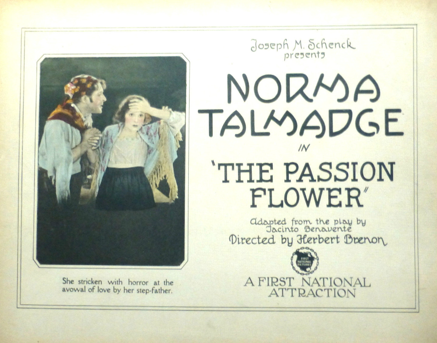 Lobby card for the 1921 film The Passion Flower with Norma Talmadge. Caption: She [is] stricken with horror at the avowal of love by her step-father.